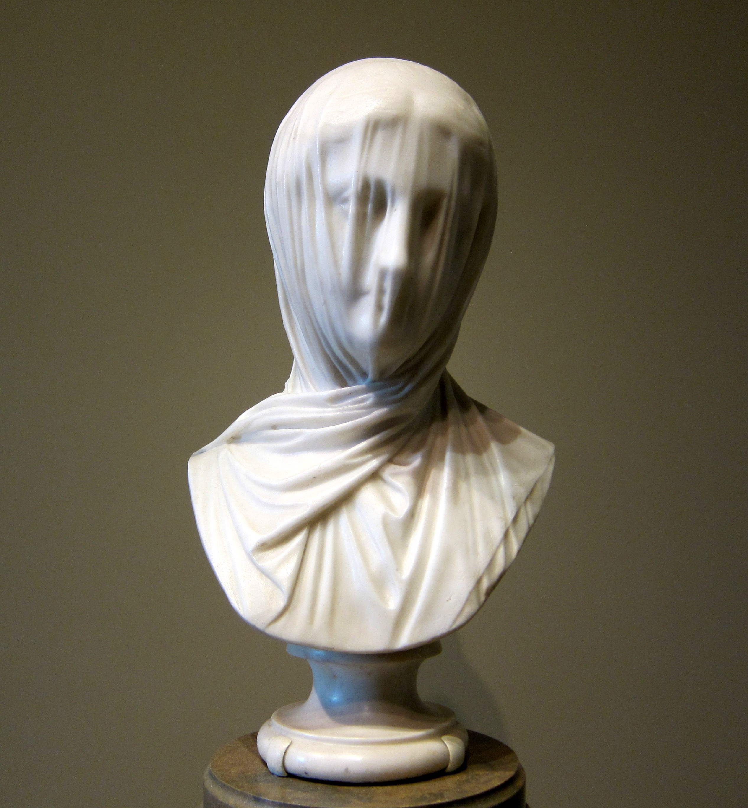 The Veiled Nun (ca 1863), by an unknown Italian sculptor (previously attributed to Giuseppe Croff), is housed in the National Gallery of Art in Washington, D.C. It was previously housed in the Corcoran Gallery of Art.